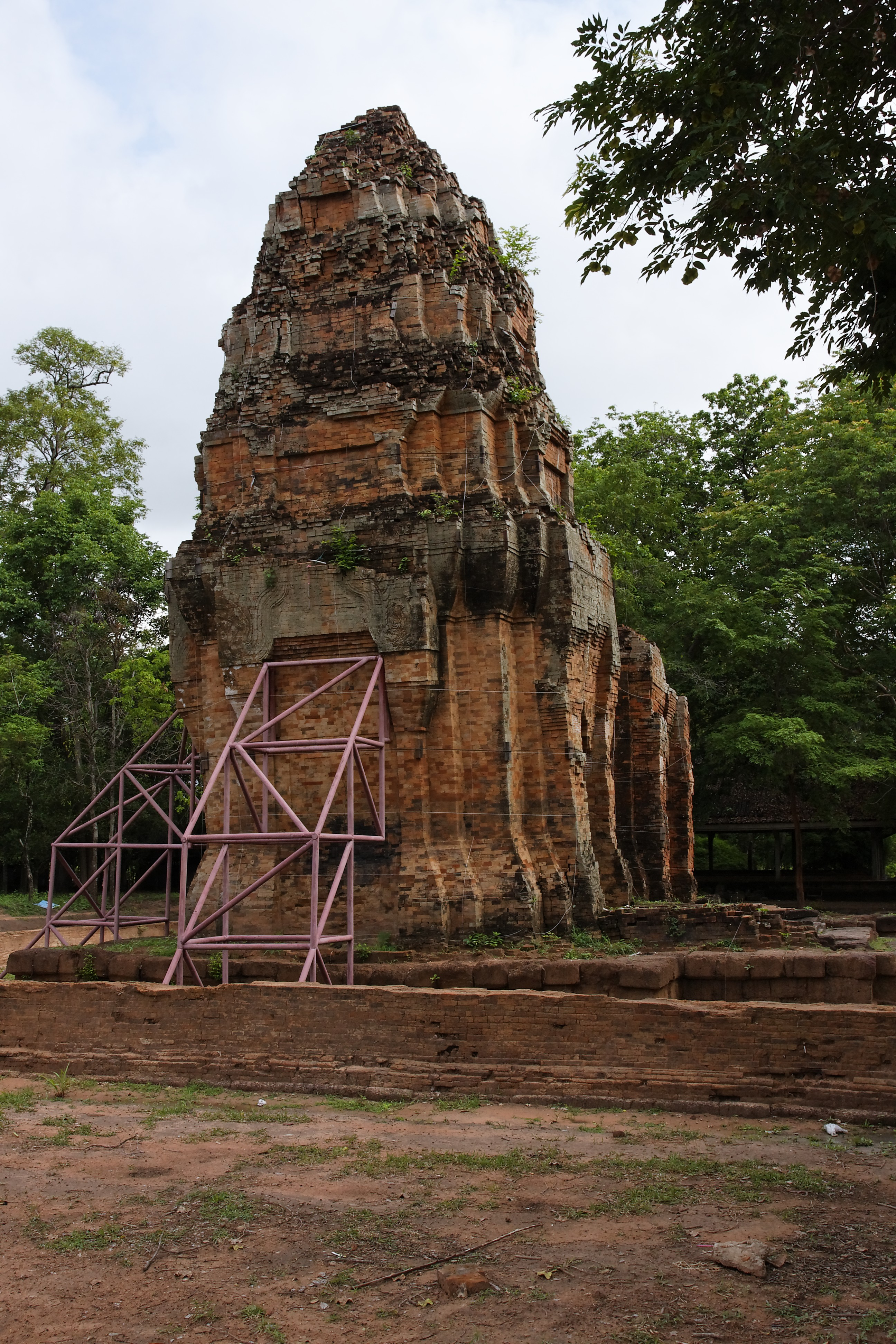 Prasat Yai Ngao, Thailand